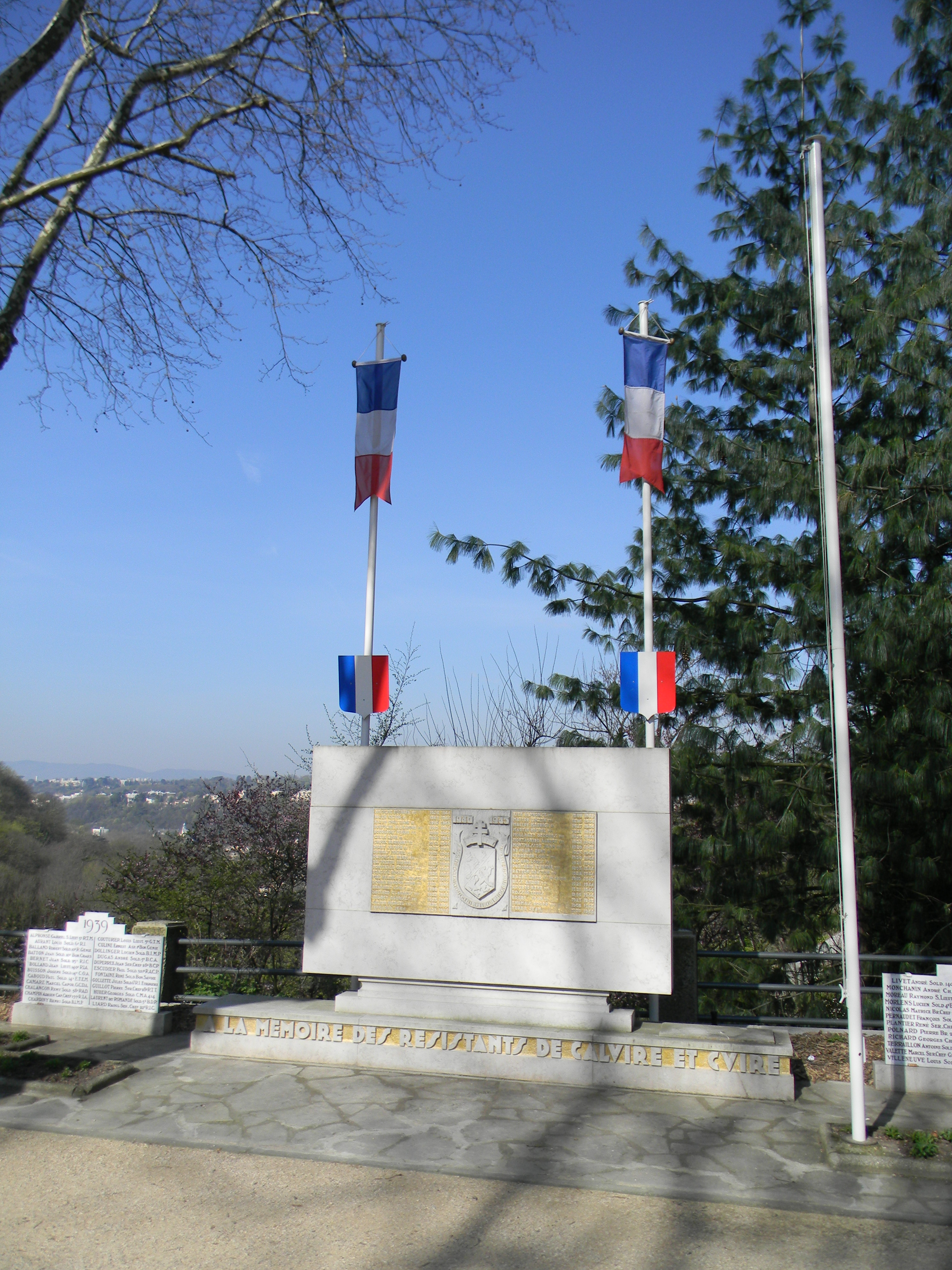 Memorial of WWII in Caluire-et-Cuire